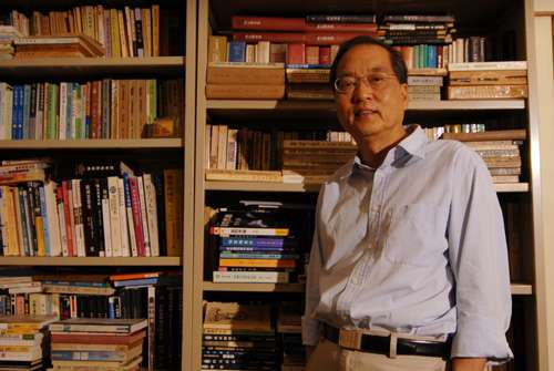 Tao Kwok Cheung, taken in a press interview